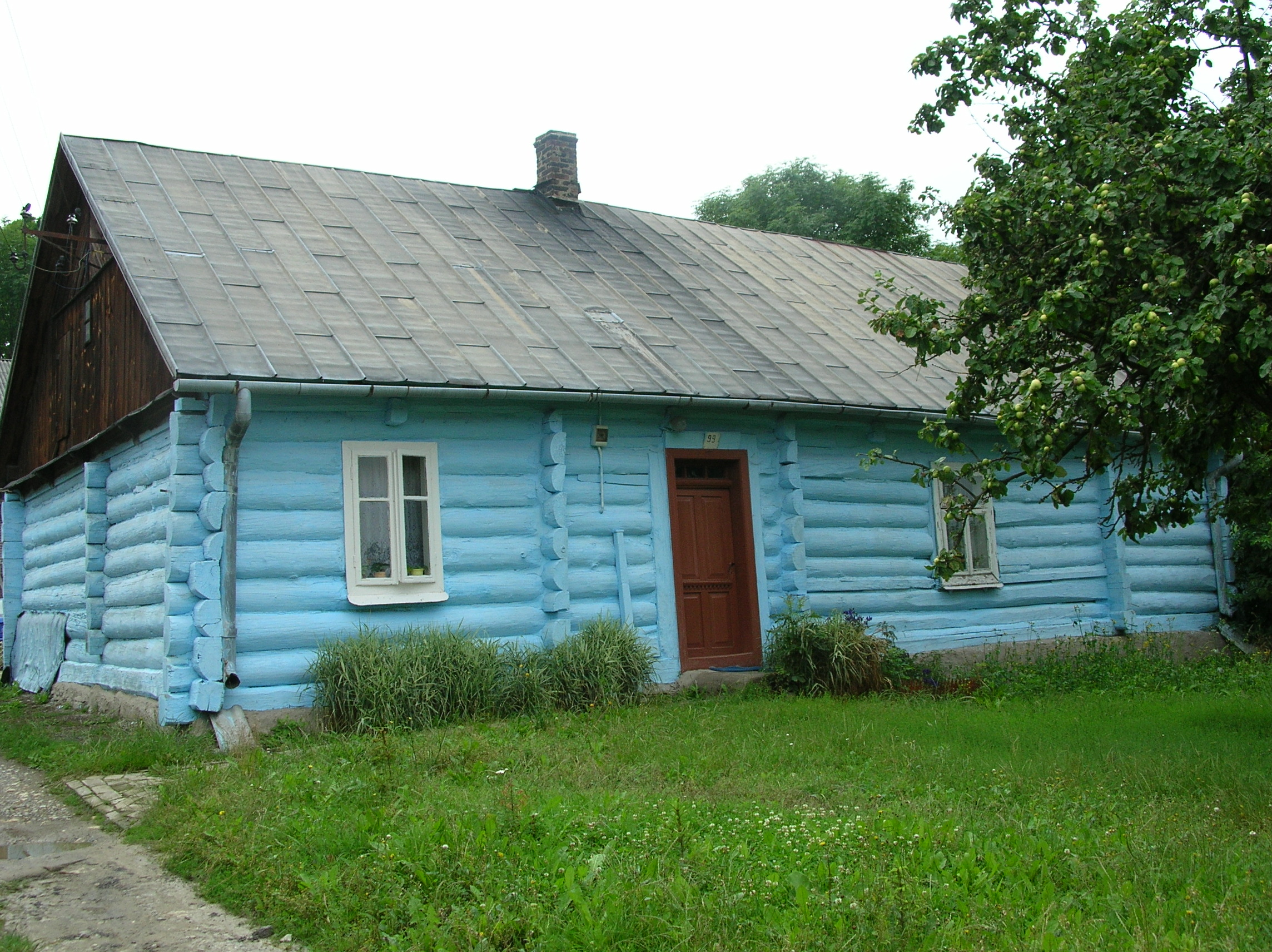 Hut at Jangrot